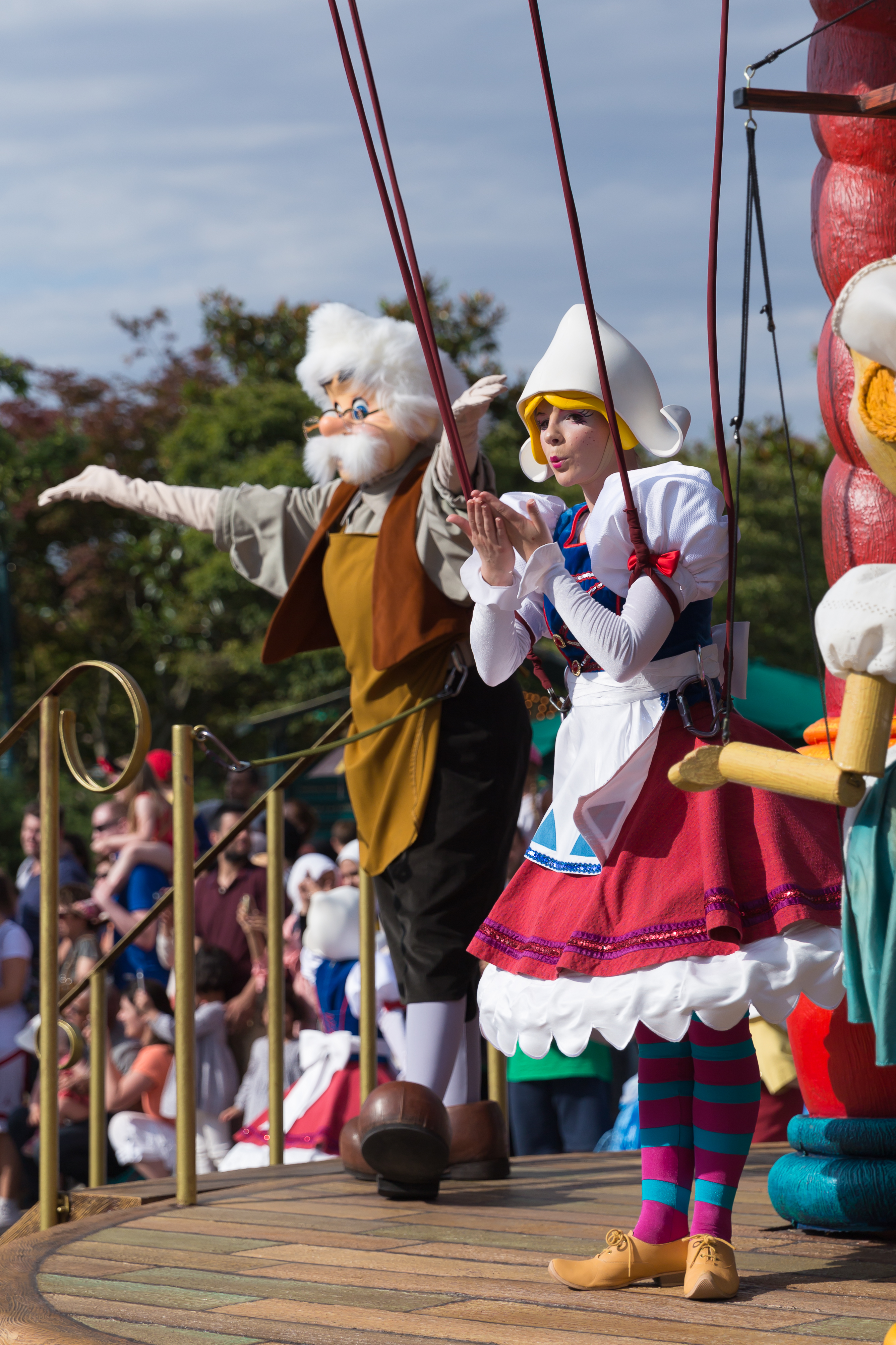 Disney Character illustrating Pinocchio at the Disney Magic On Parade in Disneyland Paris.